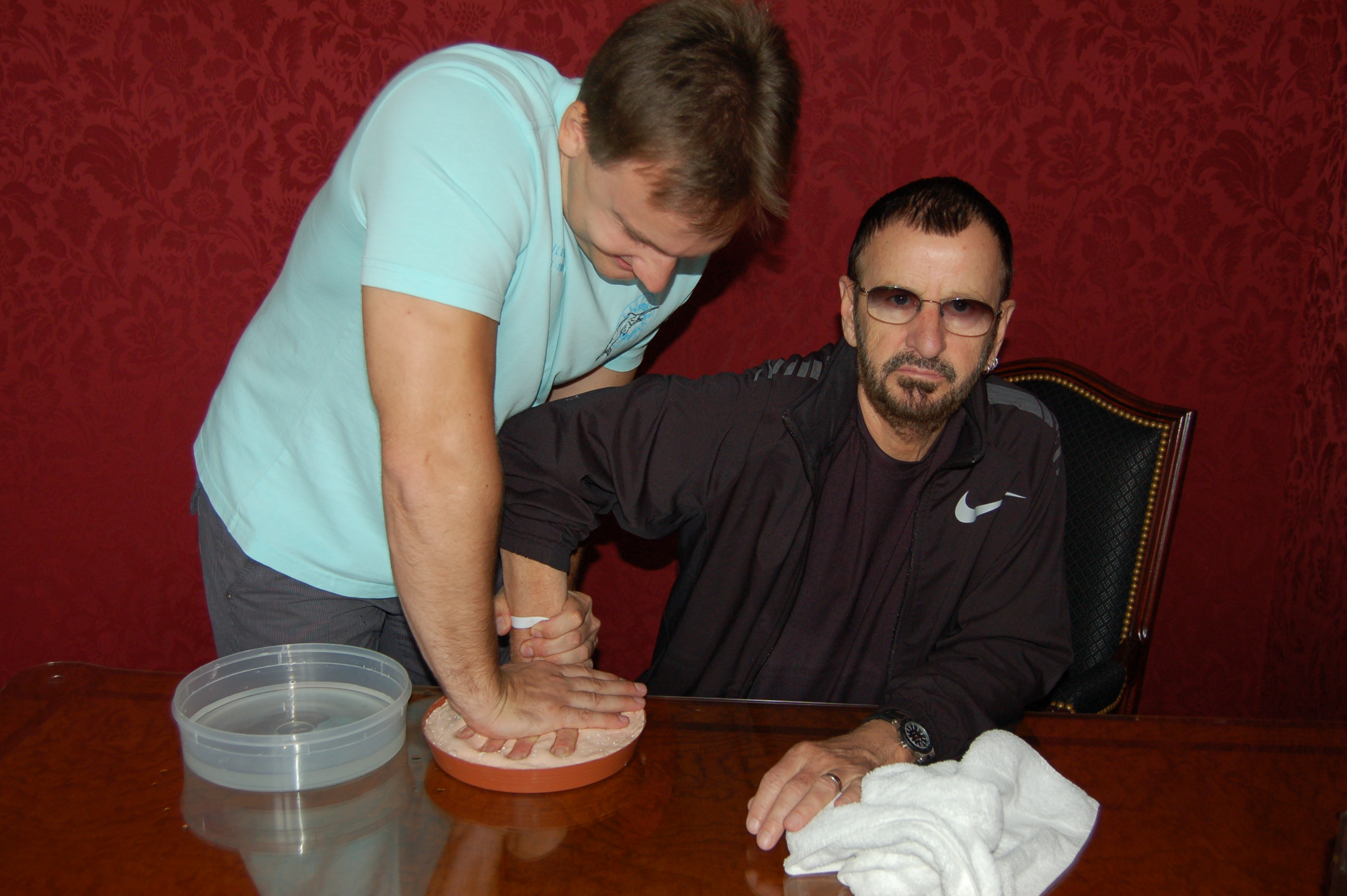 Ringo Starr is giving his hand print to glass artist Jan Hunat after his concert in Prague 2011. Česky: Ringo Starr otiskává svou dlaň pro skláře Jana Huňáta, ten z toho vytvoří Křišťálový dotek.